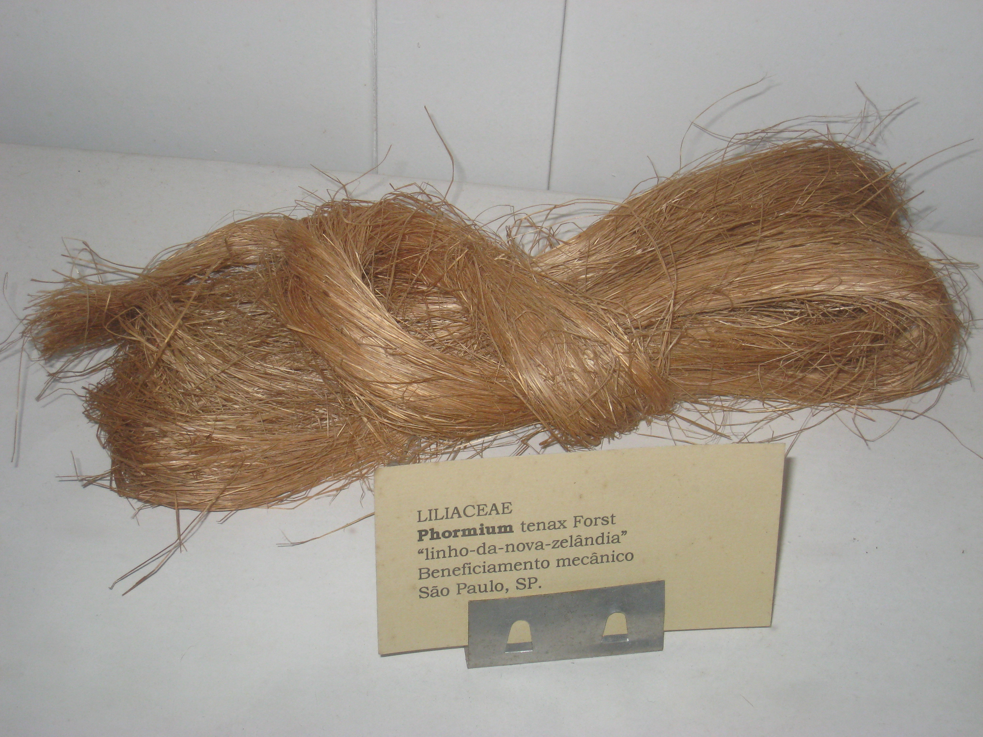 Phormium tenax specimen fibres (flax fibres) in the Museu Botânico Dr. João Barbosa Rodrigues, Jardim Botânico de São Paulo, São Paulo City, SP, Brazil.